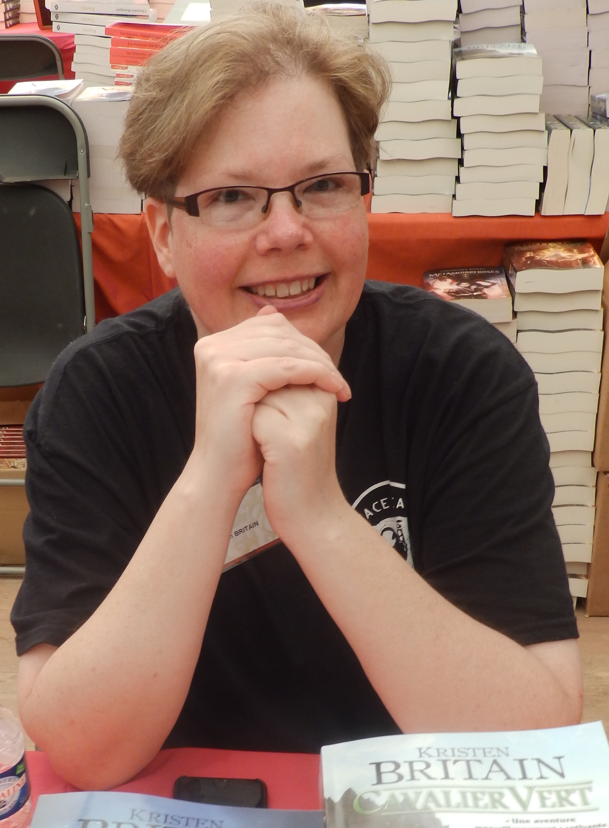 The american fantasy writer Kristen Britain at the book fair Les Imaginales in Epinal (Vosges department, in France), in may 2016.